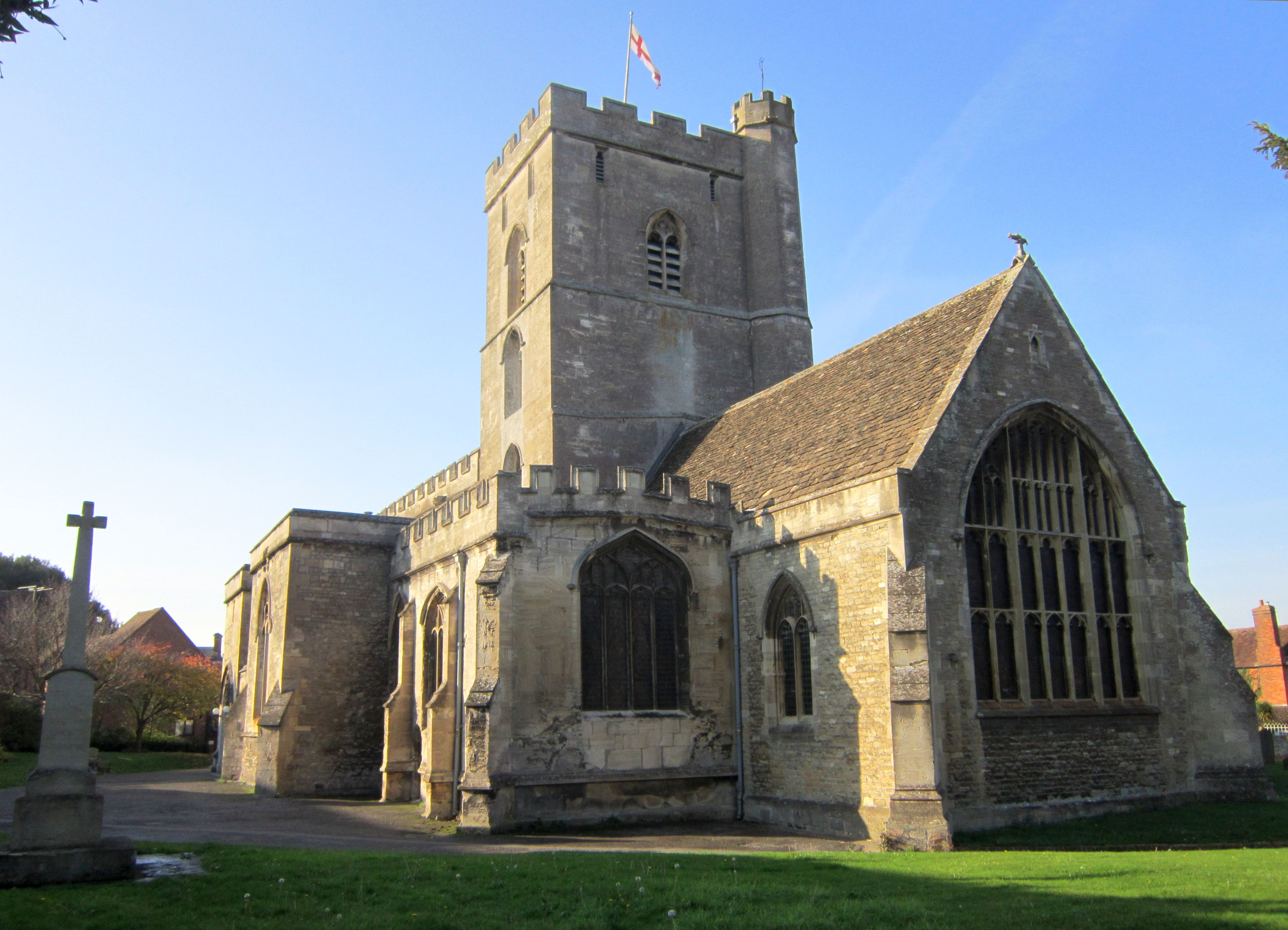 All Saints' church, Westbury, Wiltshire